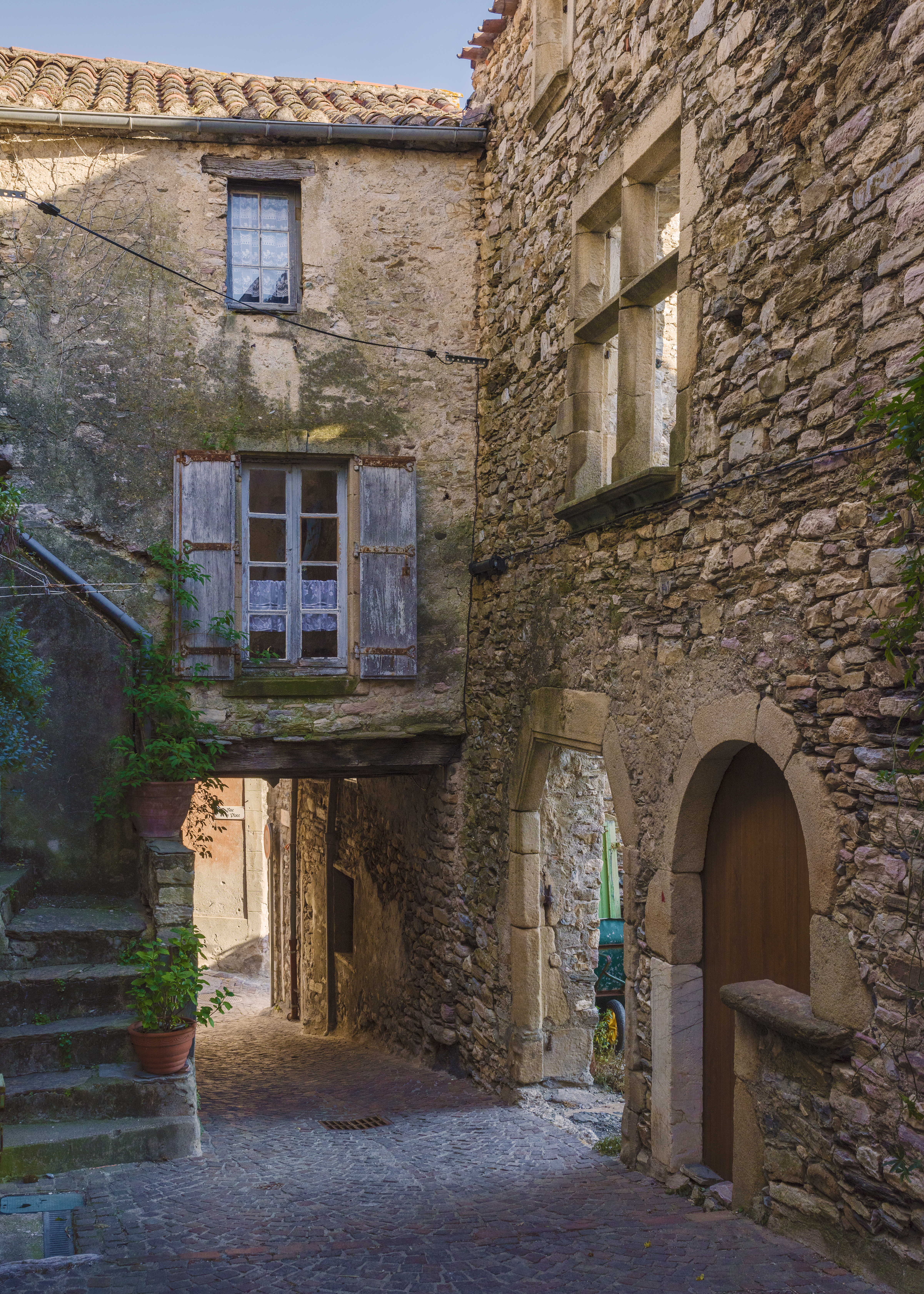 Mazel Street. Olargues, Hérault, France.